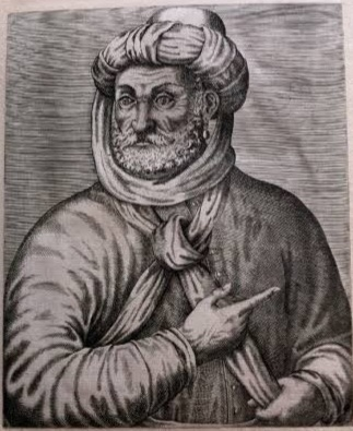 Ahmed_al_Mansur